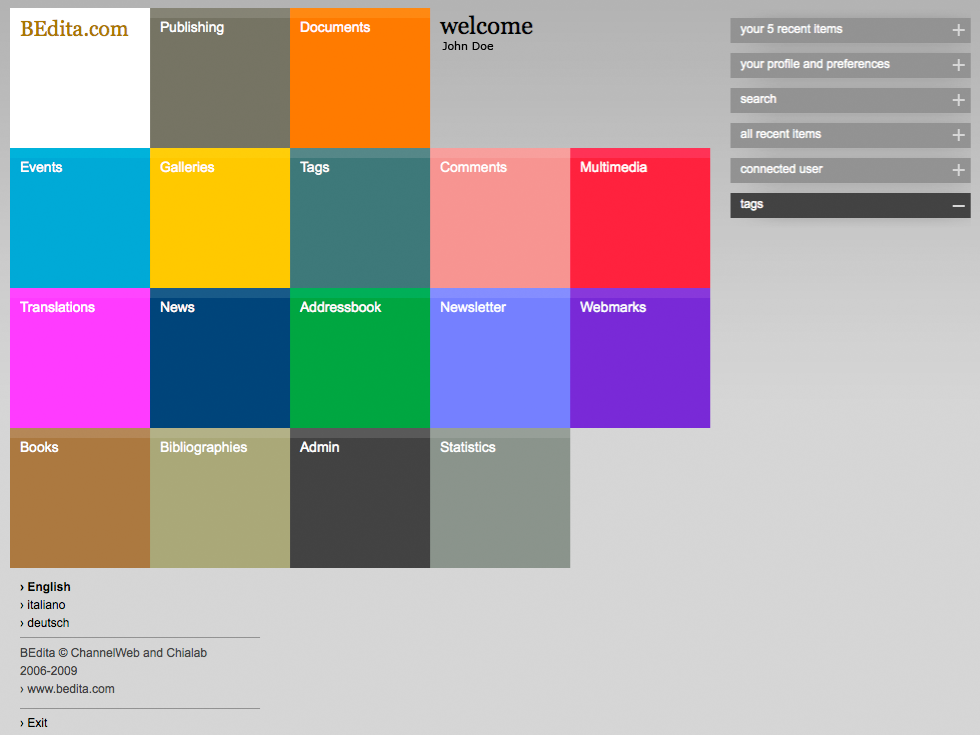 BEdita Home Page Screenshot